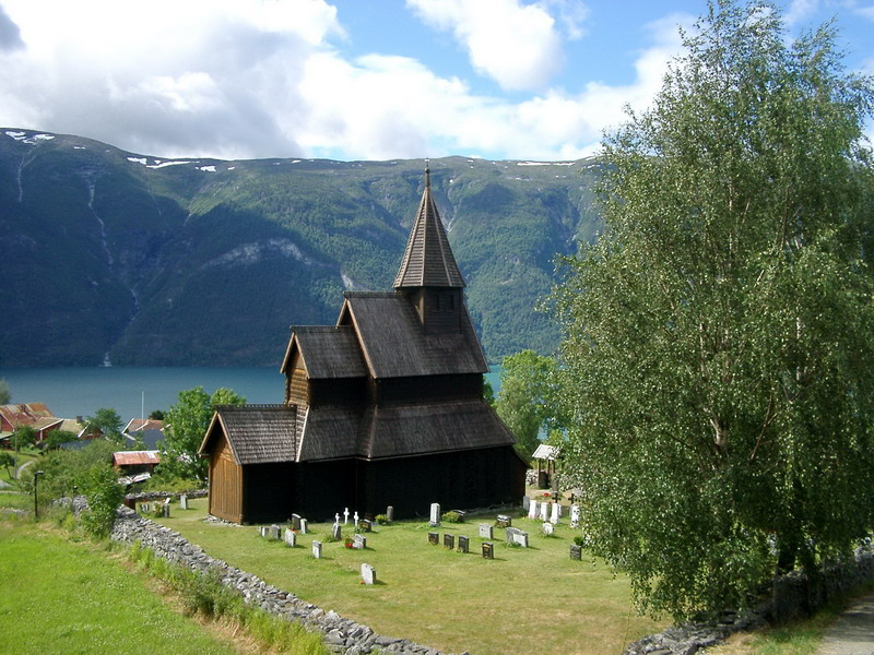 Urnes Stave Church